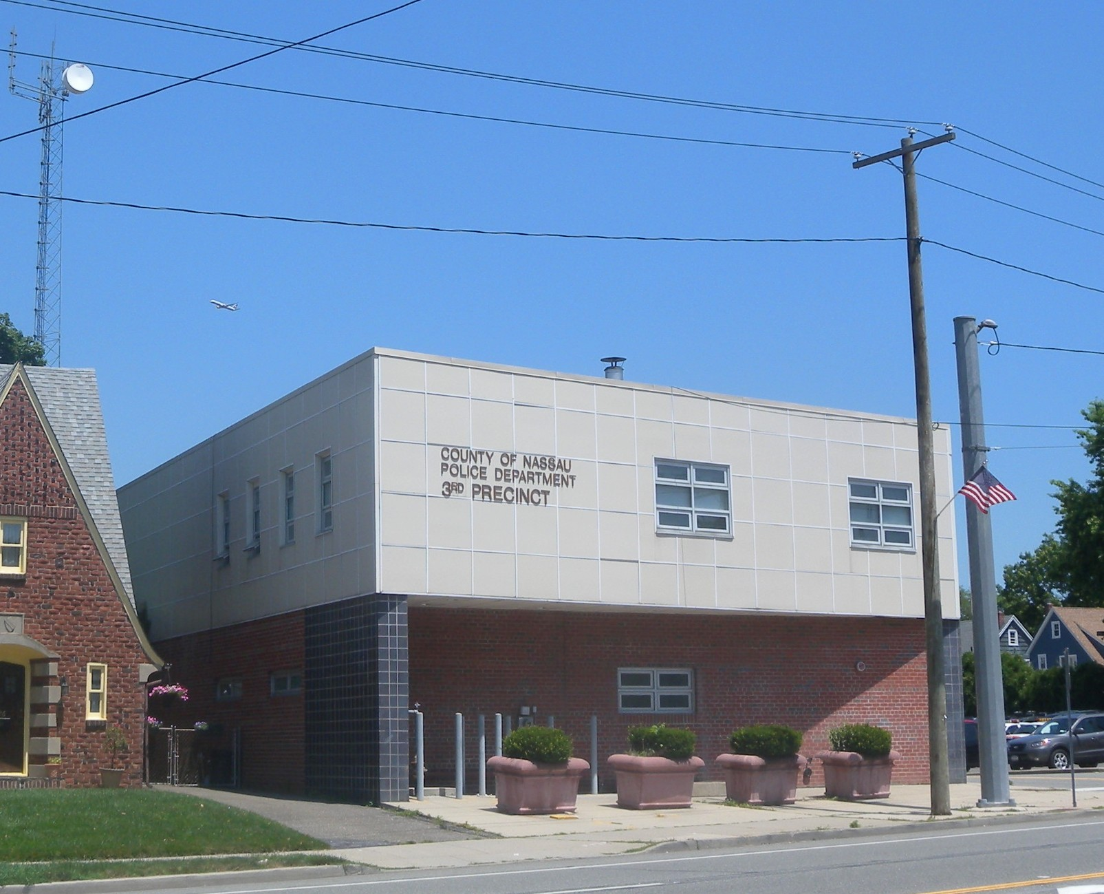 Looking north across Hillside Avenue (Rte 25B) at police station, on a sunny midday.